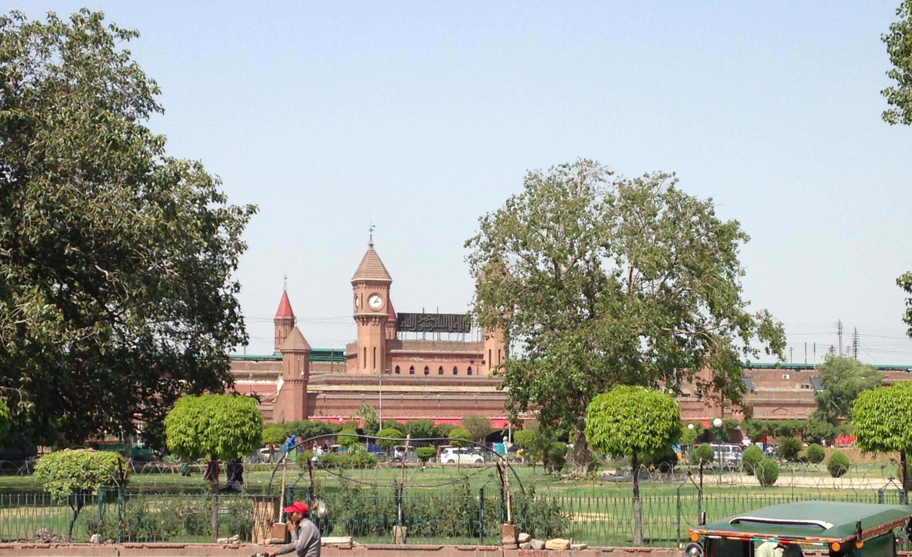 Front View of Lahore Railway Station as on 29th June 2019. Construction by done Mughal Emperor, Mian Mohammad Sultan Chughtai during Mughal Empire in 1859-1860 is still alive